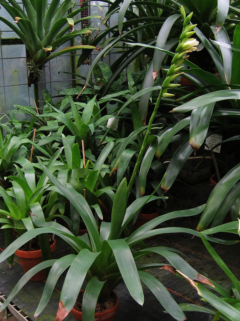 Vriesea roethii in cultivation at the Botanical Garden of Heidelberg, Germany.